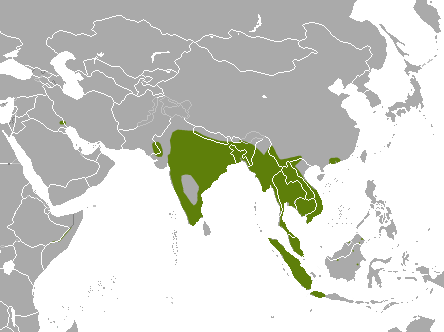 Smooth-coated Otter (Lutrogale perspicillata) range